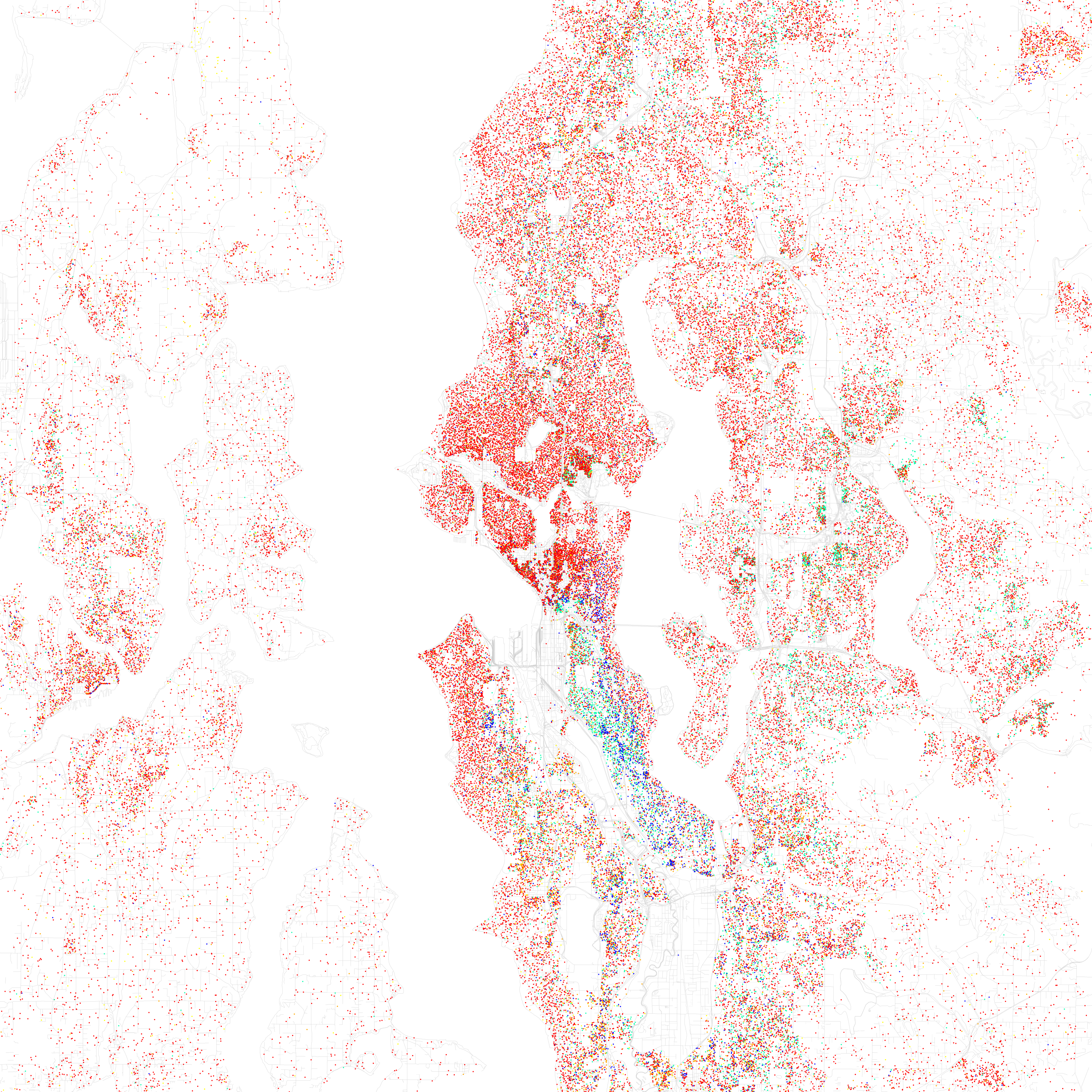 Maps of racial and ethnic divisions in US cities, inspired by Bill Rankin's map of Chicago, updated for Census 2010. Red is White, Blue is Black, Green is Asian, Orange is Hispanic, Yellow is Other, and each dot is 25 residents. Data from Census 2010. Base map © OpenStreetMap, CC-BY-SA